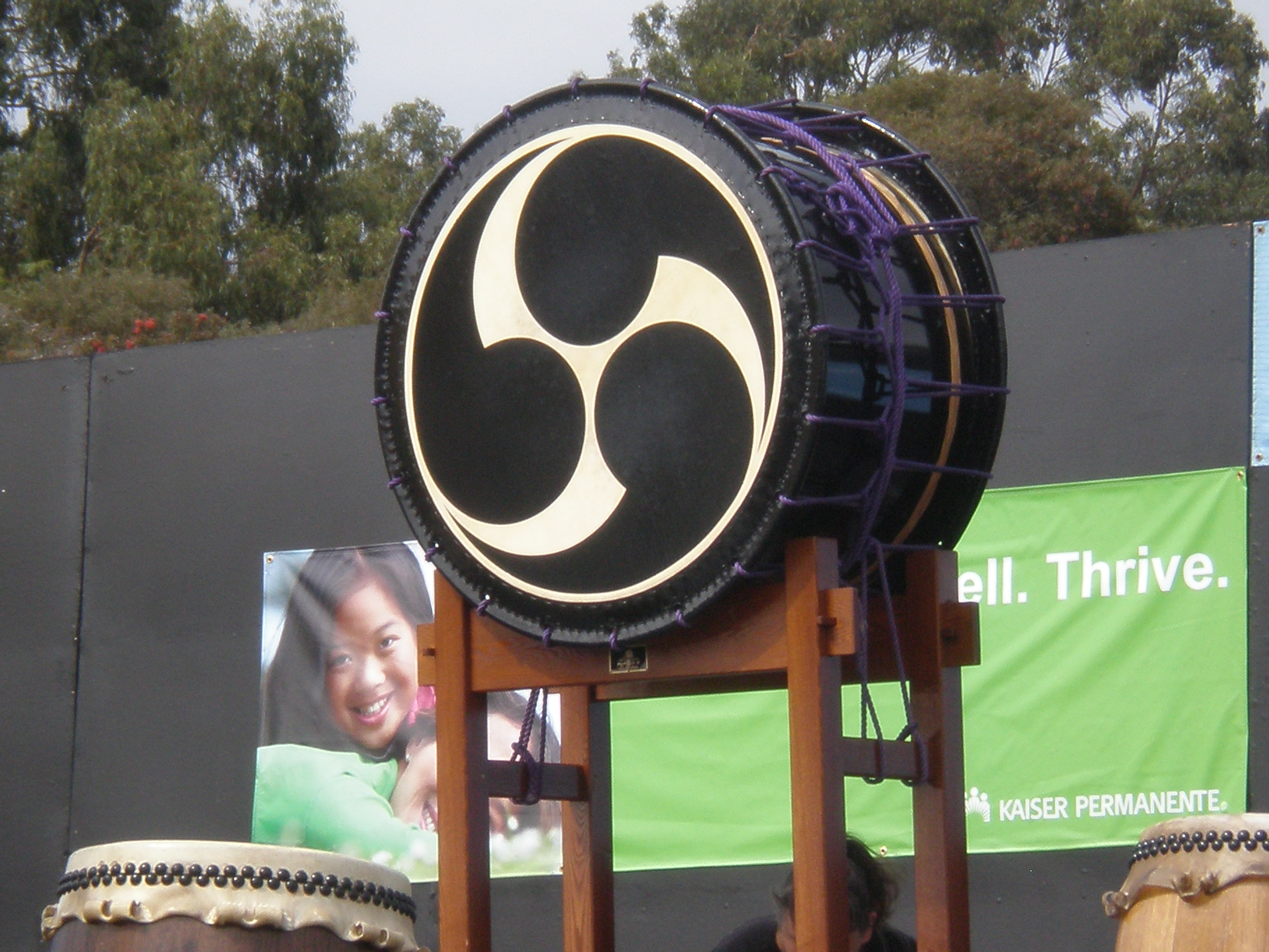 A taiko drum used by Emeryville Taiko at the 2008 San Francisco International Dragon Boat Festival held at Treasure Island from October 4-5.